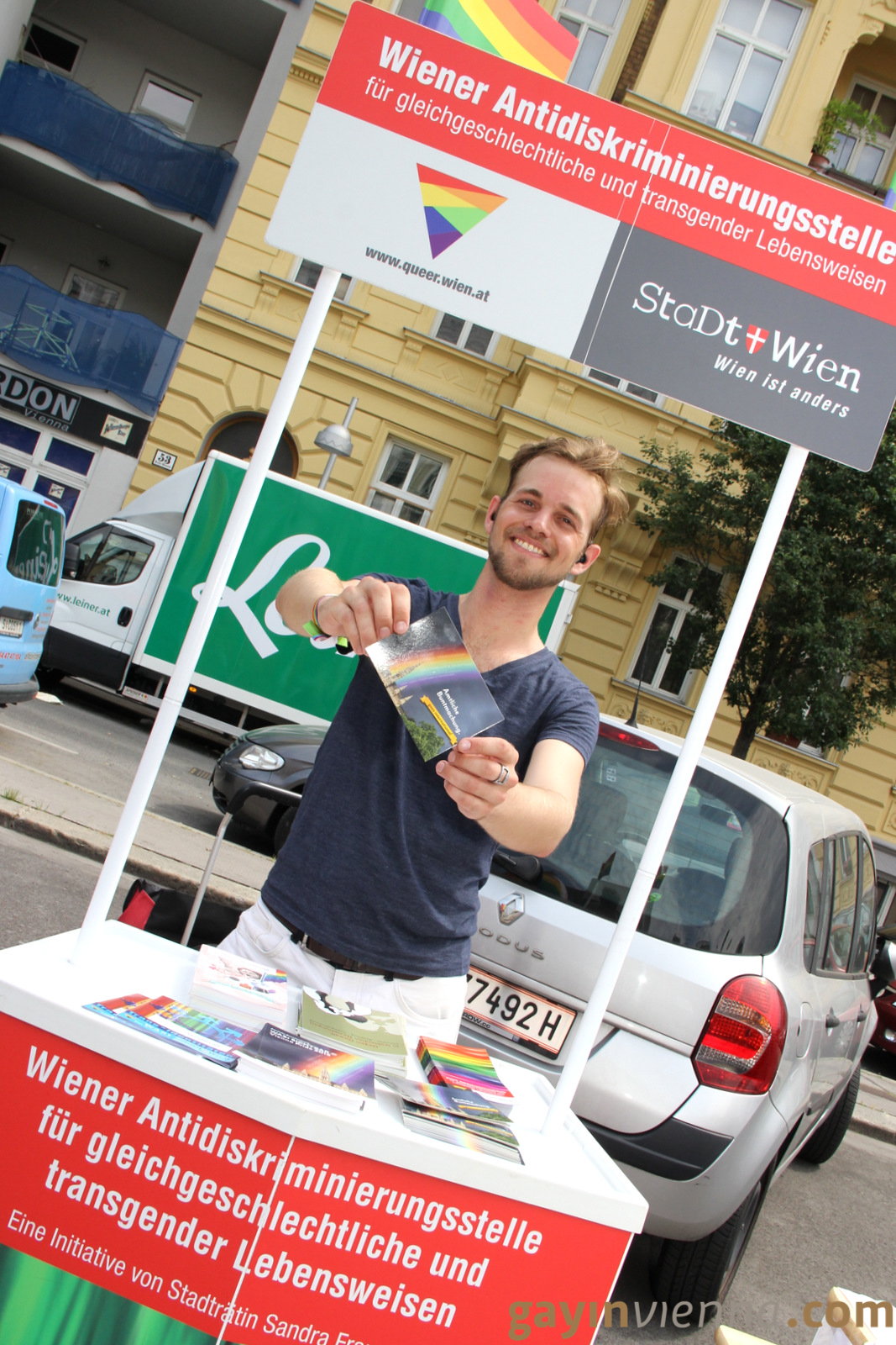 Credit: / Dorian Rammer